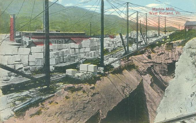 Marble mills, West Rutland, Vermont; from a c. 1915 postcard published by the Valentine-Souvenir Company, New York.